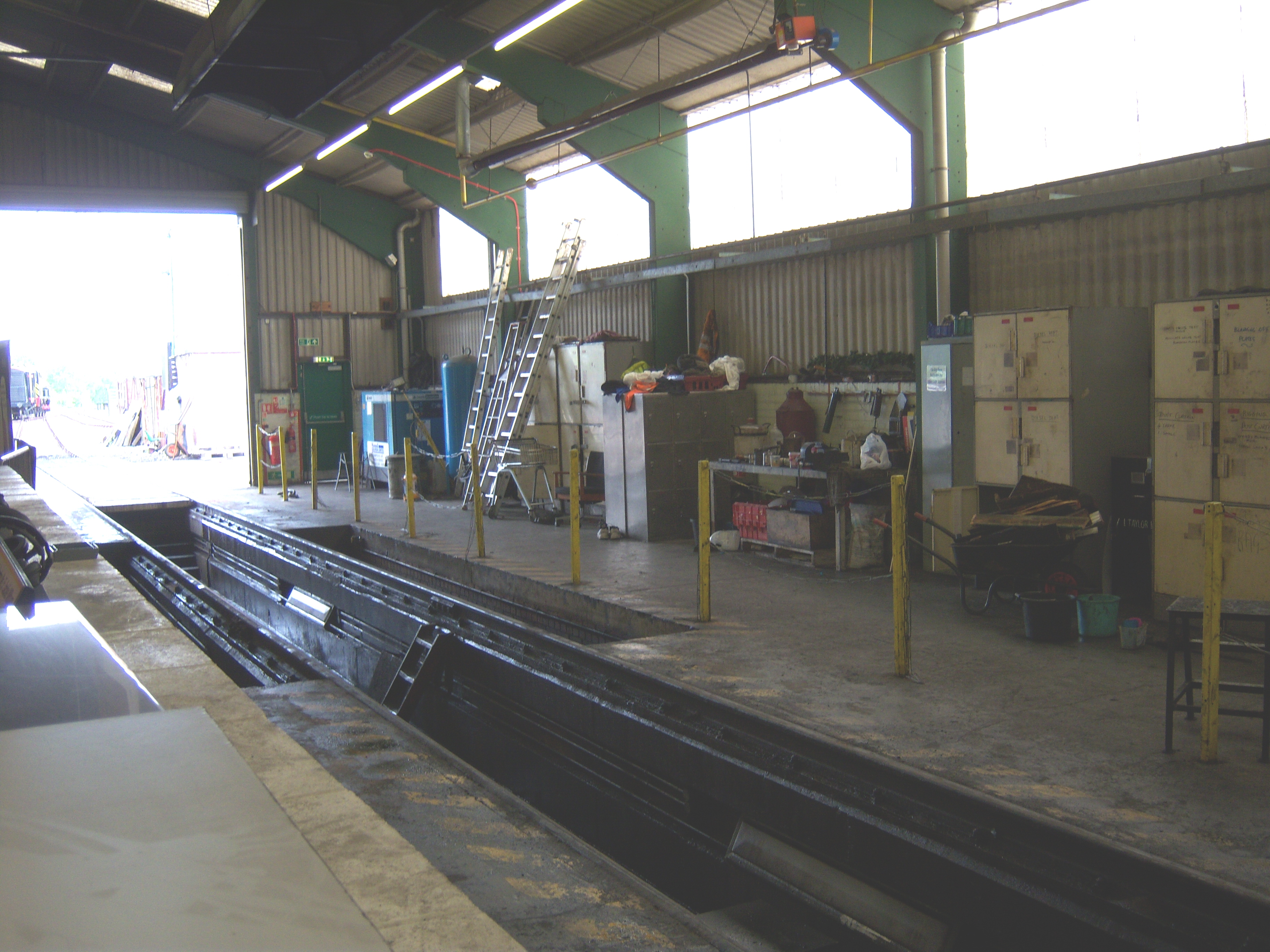 The workshop pit of the North Tyneside Steam Railway.